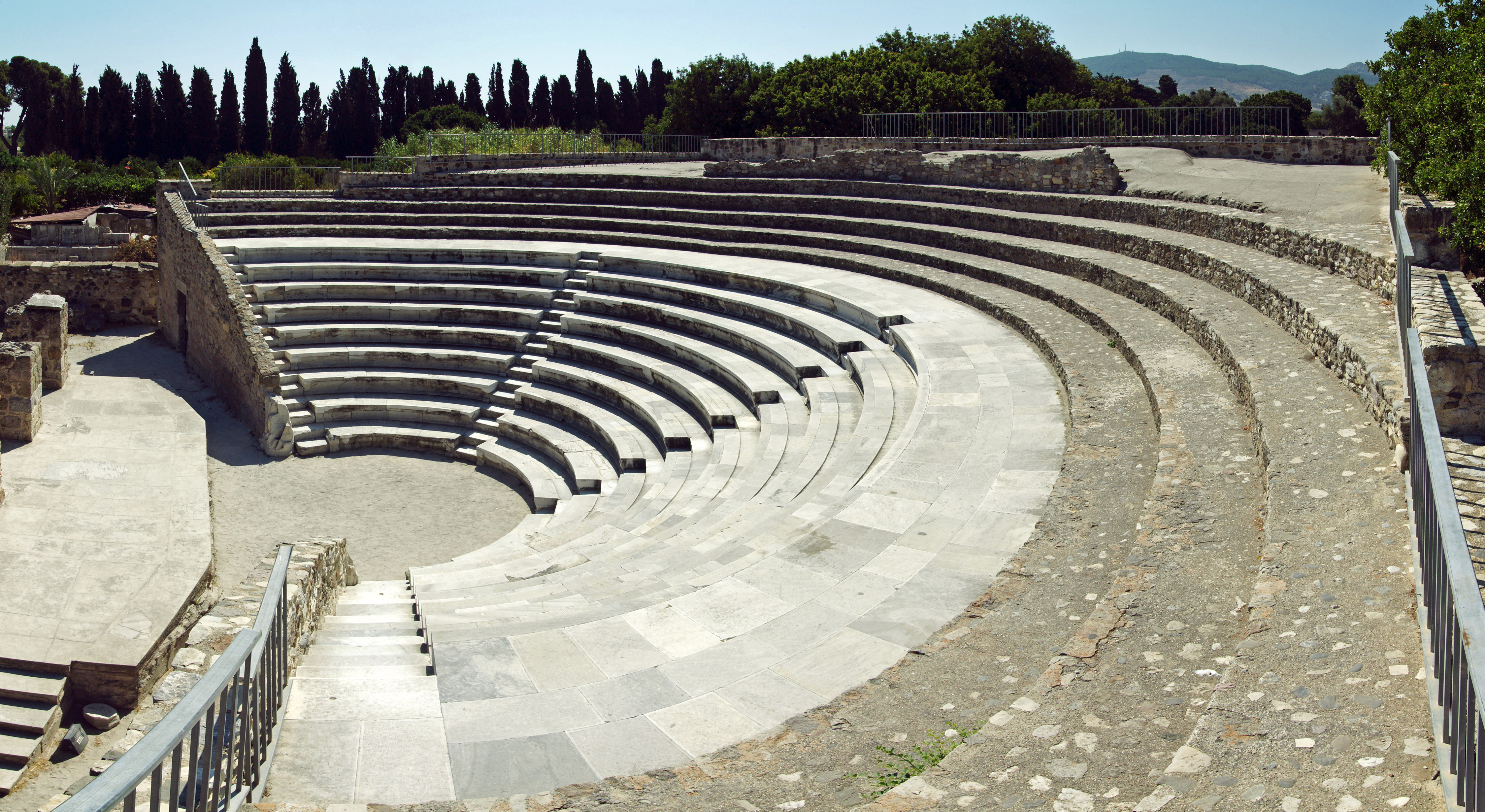 The Odeon of Kos in Kos, Greece.